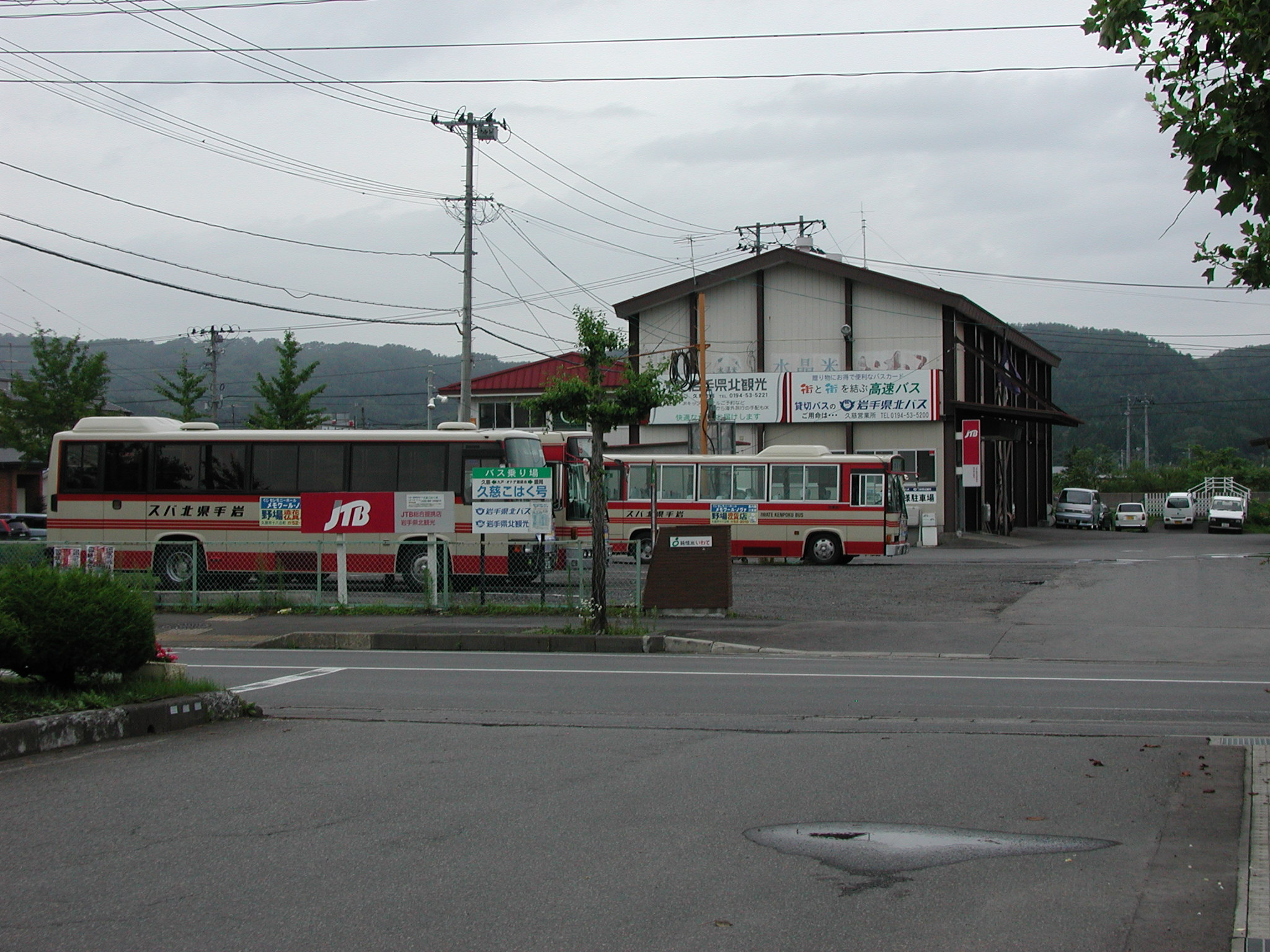 Iwate Kenpoku Bus Kuji Depot